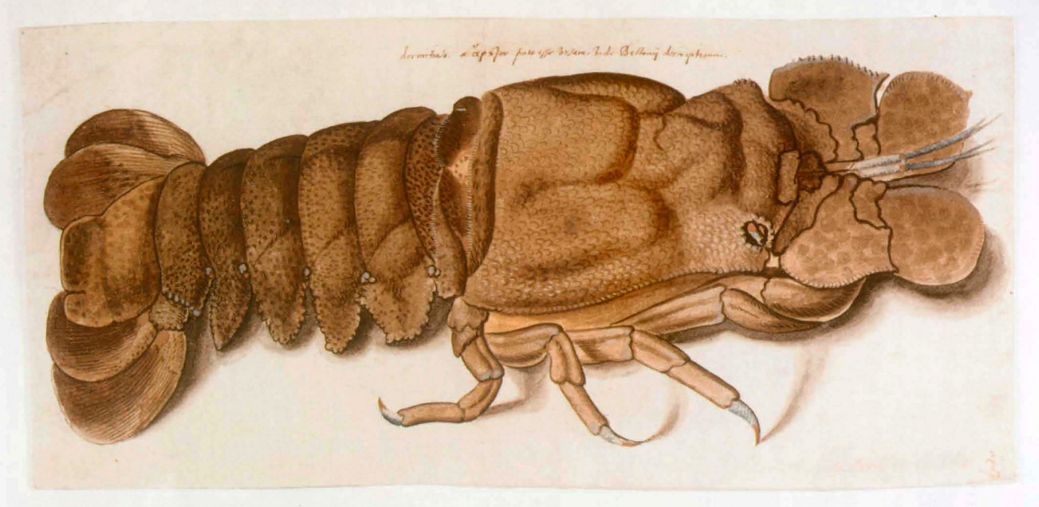 Watercolour painting of a Mediterranean slipper lobster, Scyllarides latus, later chosen as lectotype for the species, by Cornelius Sittardus.